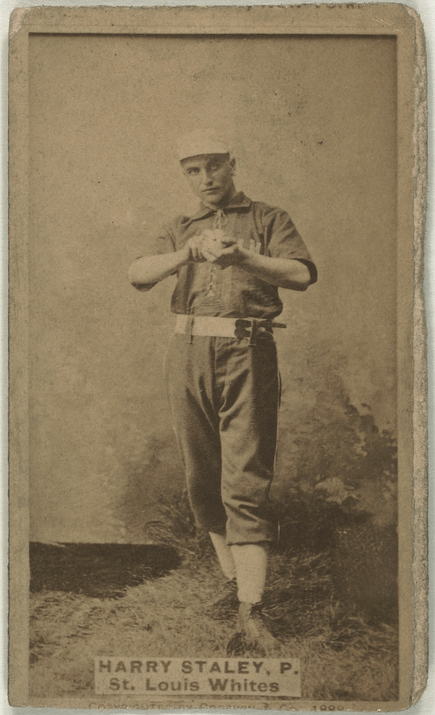 Title: Harry Staley, St. Louis Whites, baseball card portrait Abstract/medium: 1 photographic print : albumen.